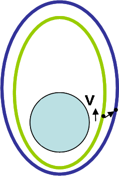 Complexica (author)